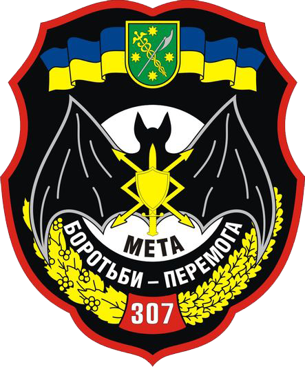 Shoulder sleeve insignia of the Ukrainian Army 307th Electronic Warfare Battalion